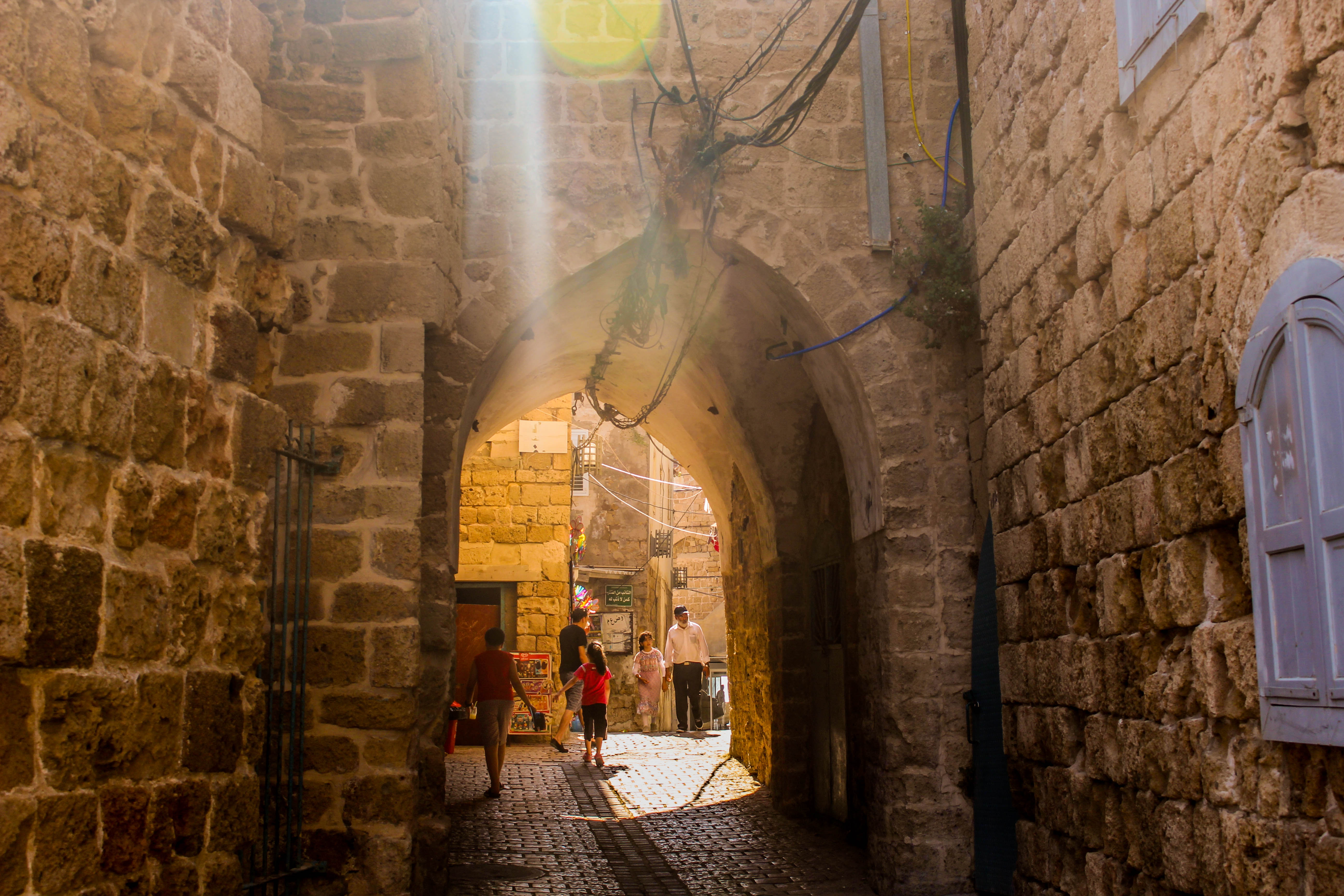 one of the nice alleys in Akko city in Palestine with the Arabic designing.